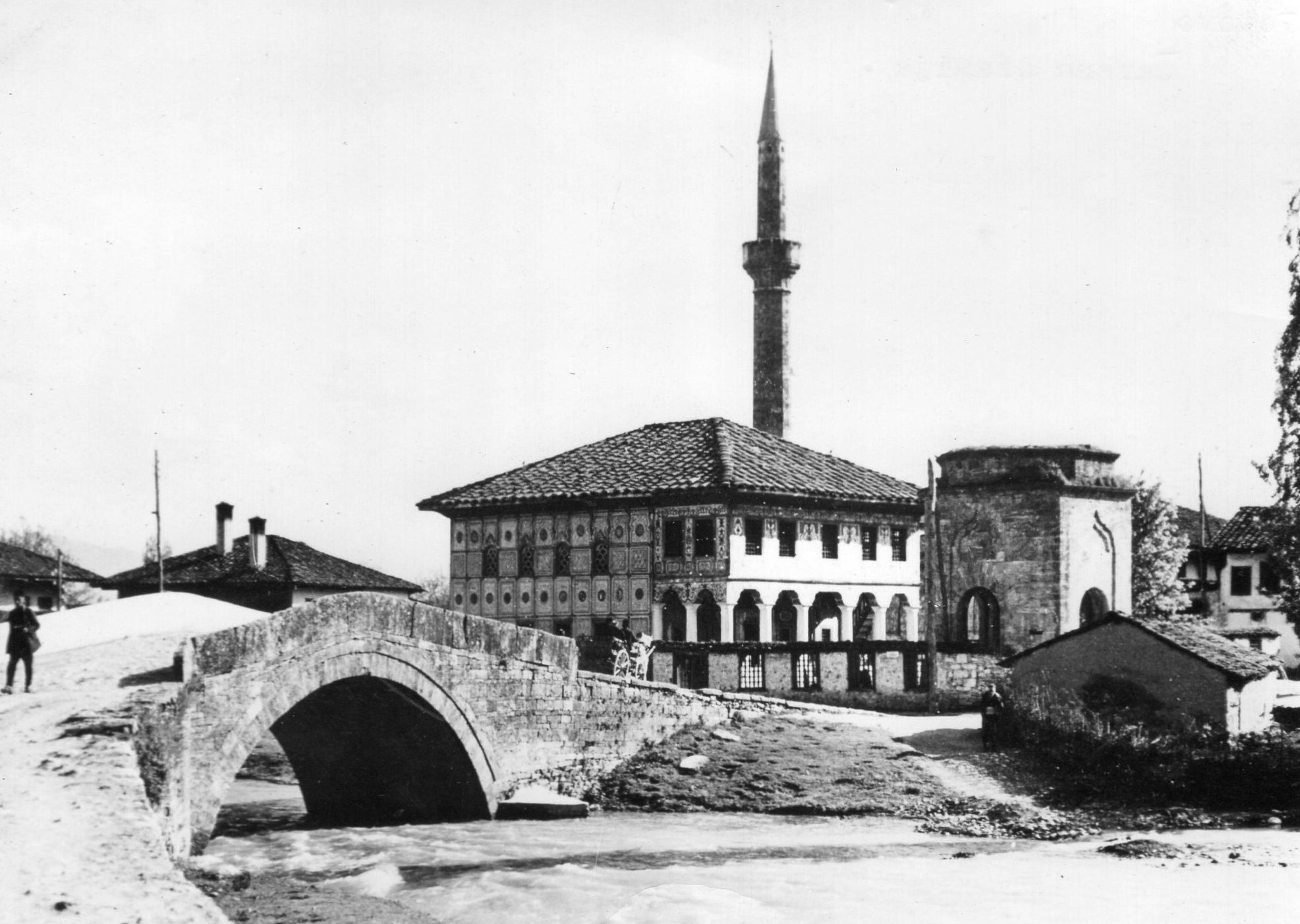 Šarena Džamija, Tetovo, from 1930's This media file is produced by Wikipedian in Residence in Category:Wikipedian in Residence at DARM in 2016.